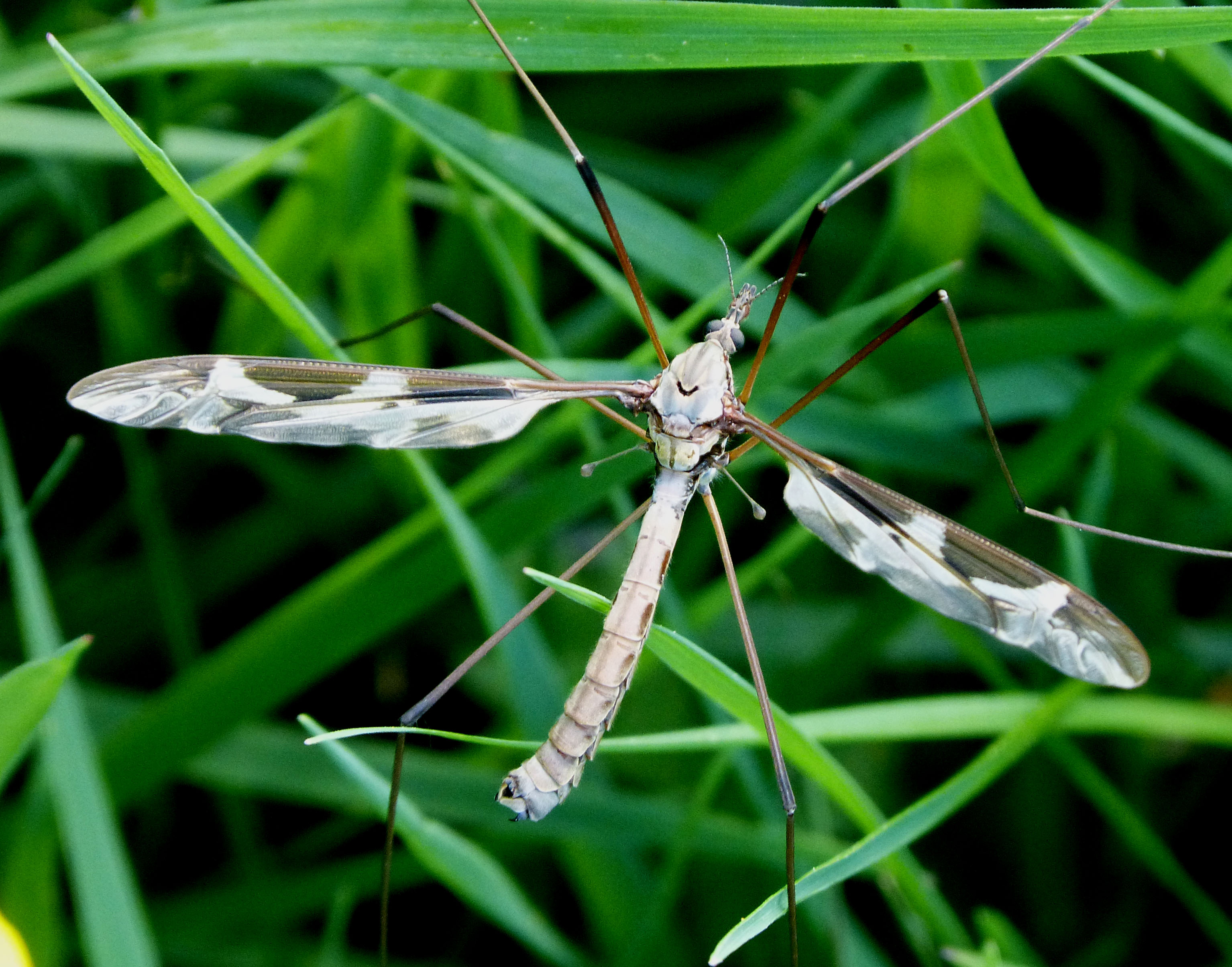 SO 7347. Cradley, Malvern. Worcs. GB 1 seen